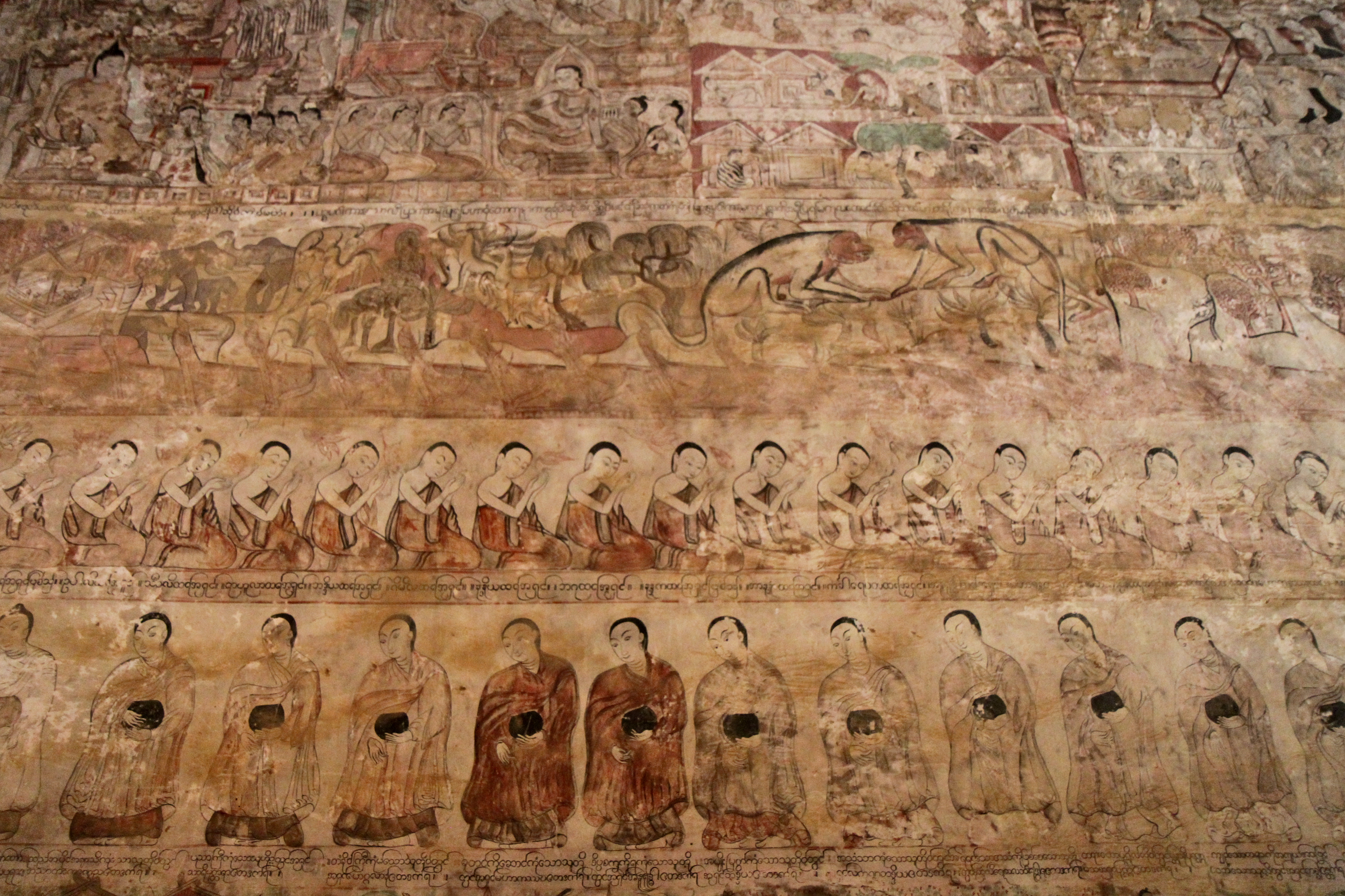 Sulamani Pahto fresco